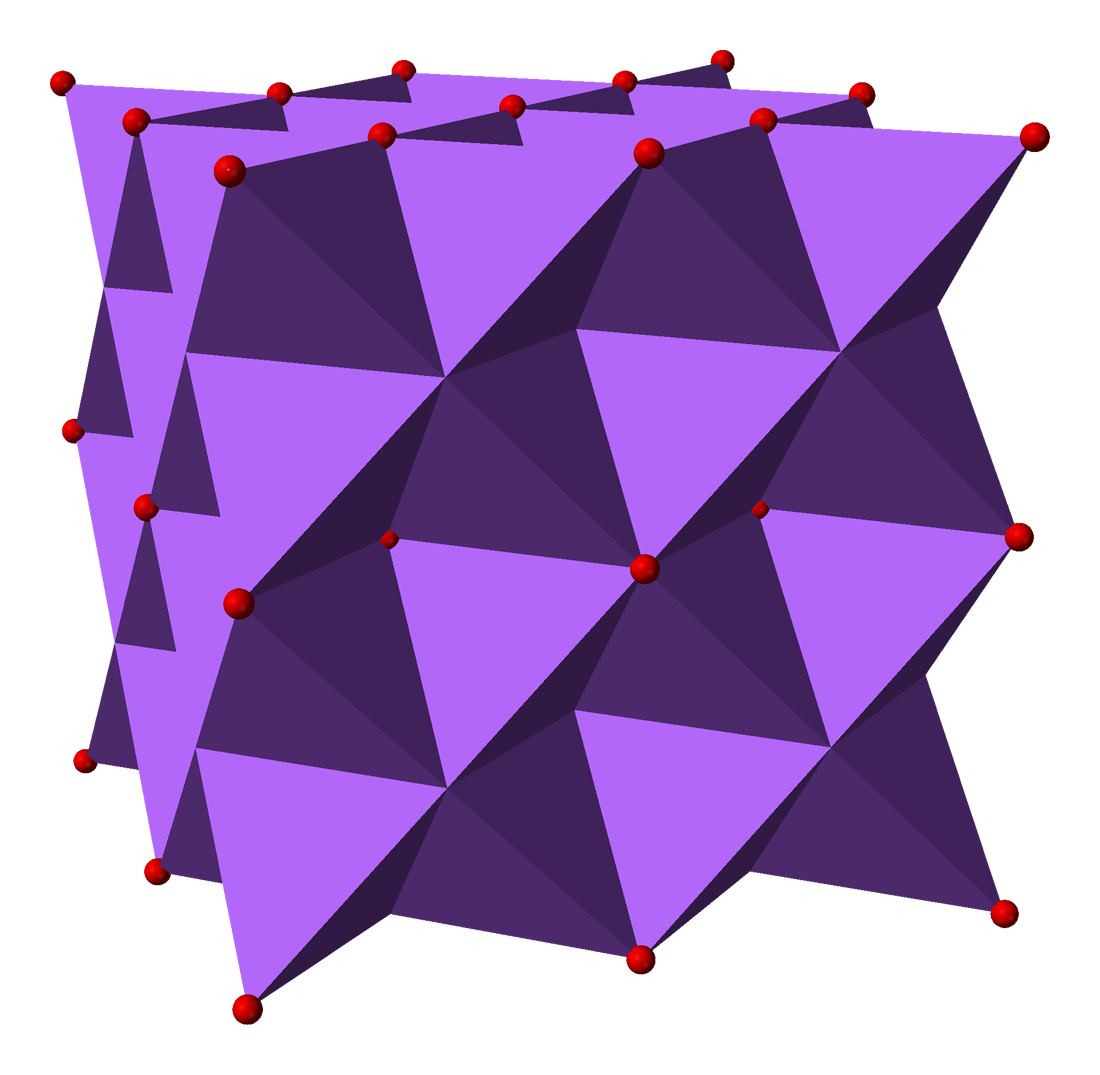 Polyhedral model of part of the crystal structure of sodium oxide, Na2O